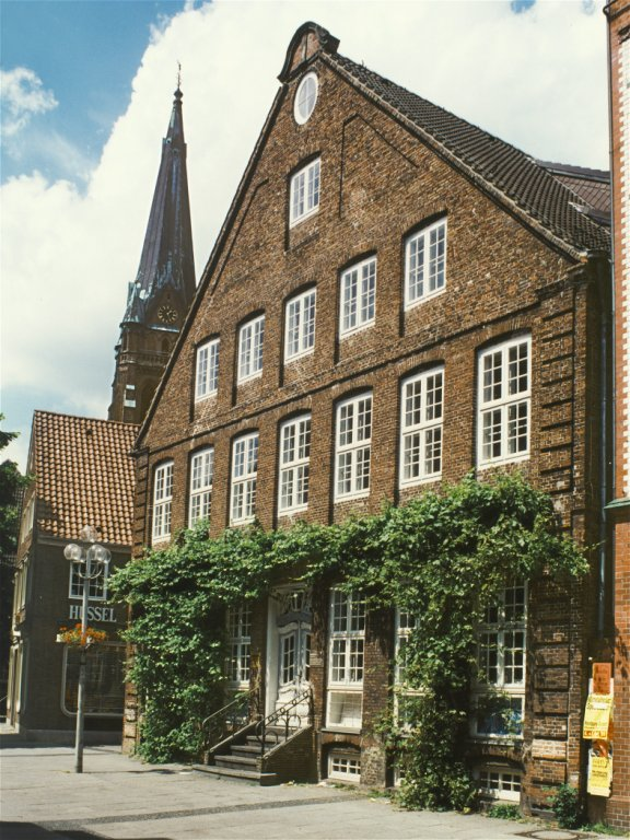 Elmshorn (Germany), House of Möhring, photo: 1999